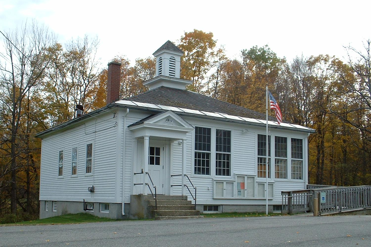 New Ashford Town Hall, New Ashford, Massachusetts. New Ashford Town Hall, Mallery Rd, New Ashford, MA